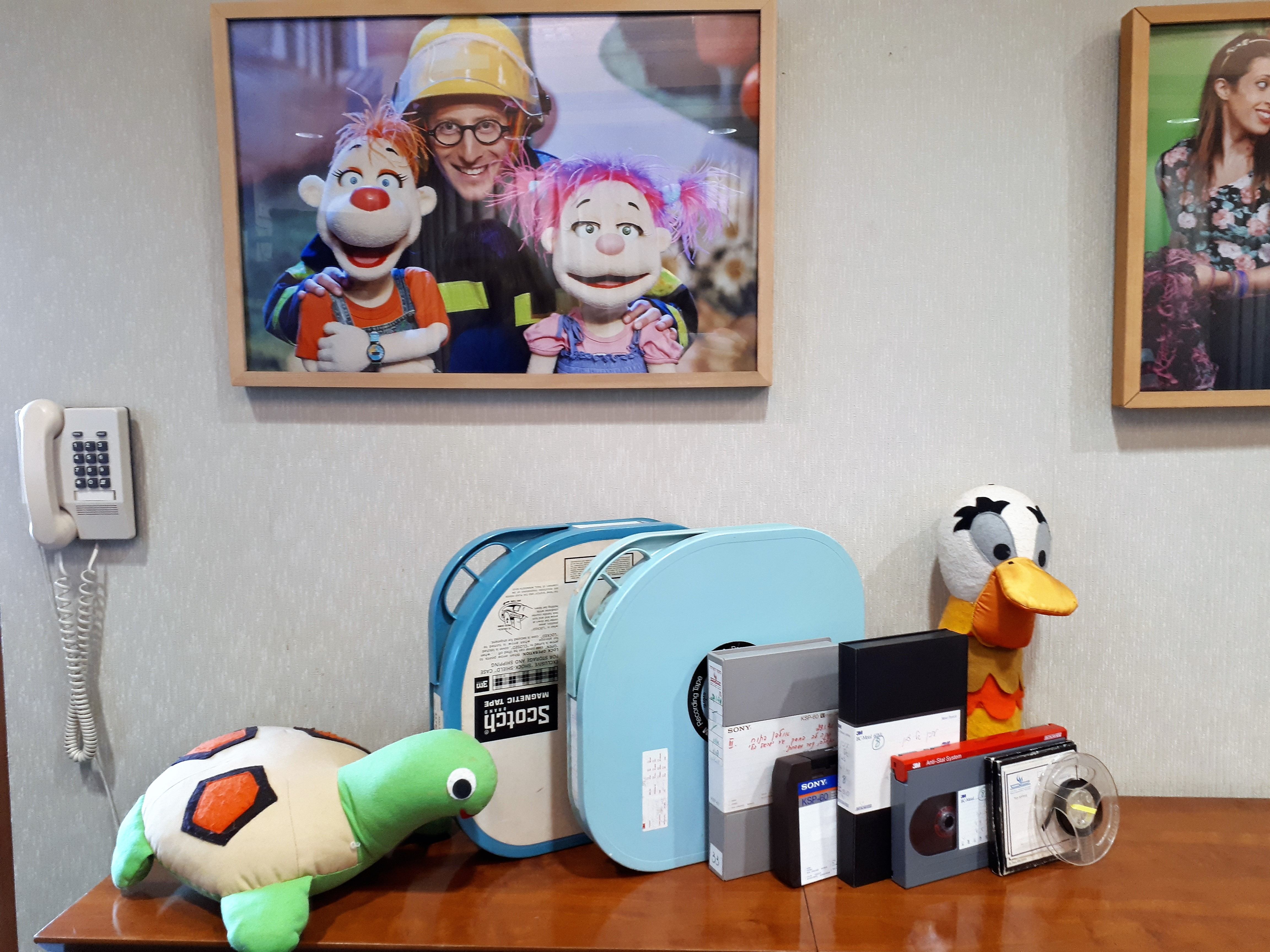 Inside the IETV building. Tel aviv, April 2018